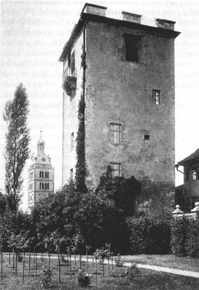 Placidusturm Regensburg